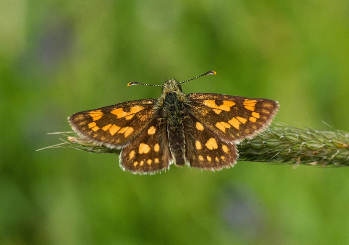 Chequered skipper